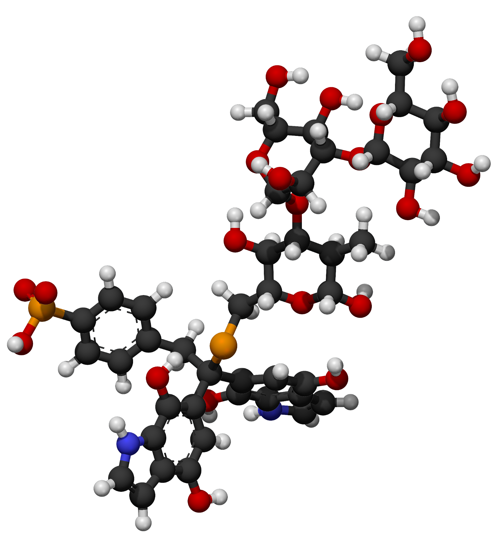 Possible 3D structure for thiotimoline, a compound invented by biochemist and author Isaac Asimov in 1948 as a joke.